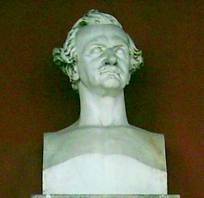 Bust of Ludwig I. at Ruhmeshalle, München, Germany. Picture taken by myself: Dominik Hundhammer, München, 27 March 2006.